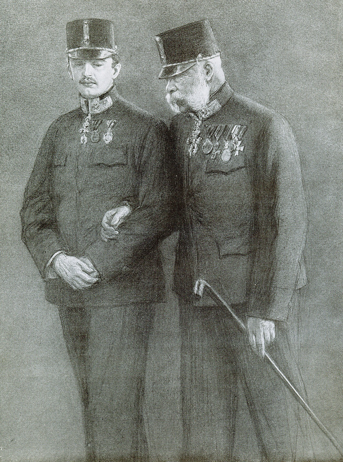 Emperor Franz-Josef 1 of Austria and his heir and successor Archduke Charles, press drawing, july 1914, a few days before the beginning of WW1. Published by "L'ILLUSTRATION", 1914-1919 - 1931